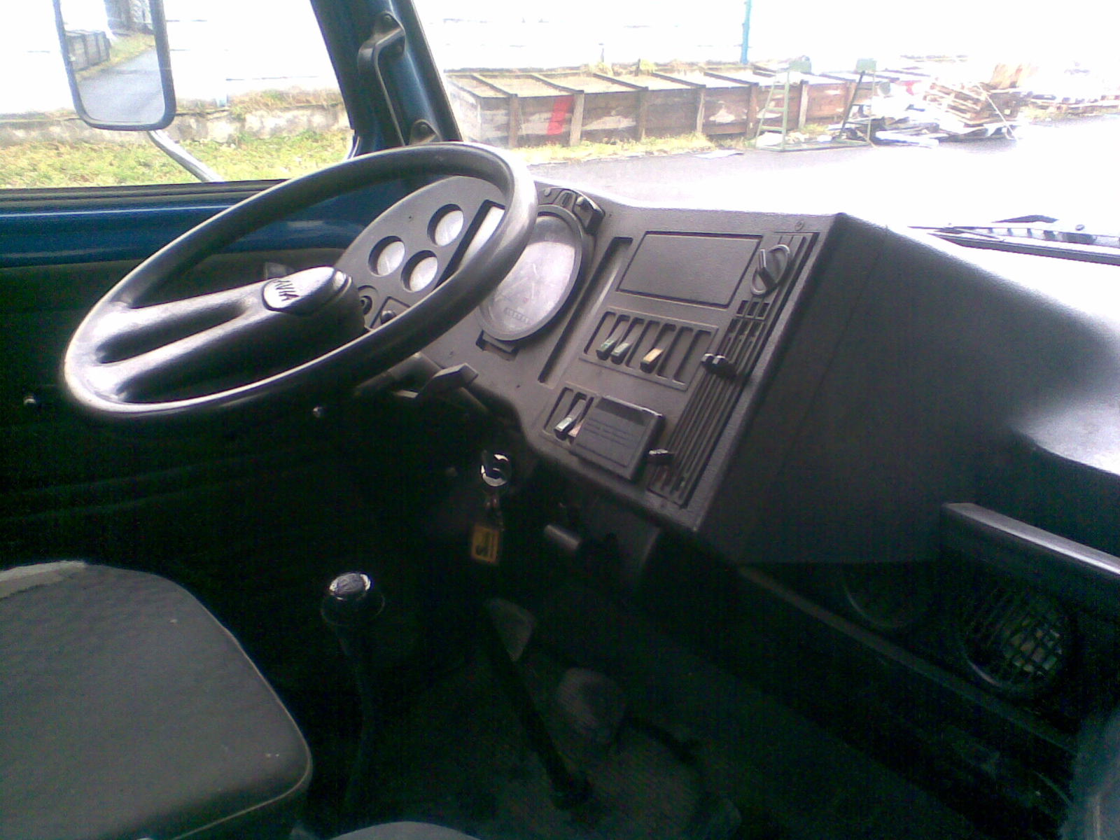 Avia A-31 (interior)